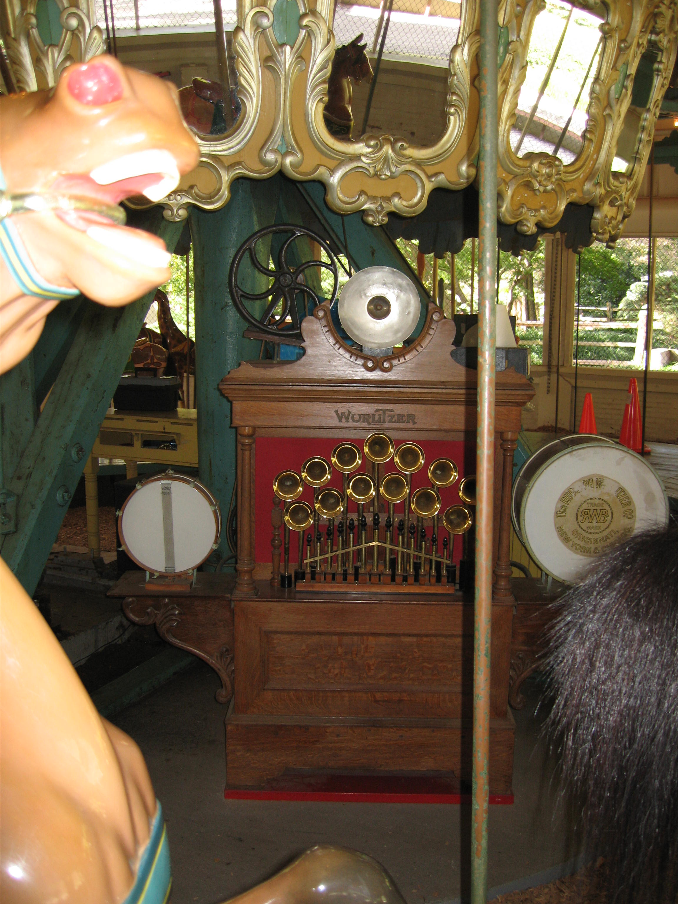 Wurlitzer 125 band organ (1924), Pullen Park Carousel, Raleigh, NC Alexandra Fox